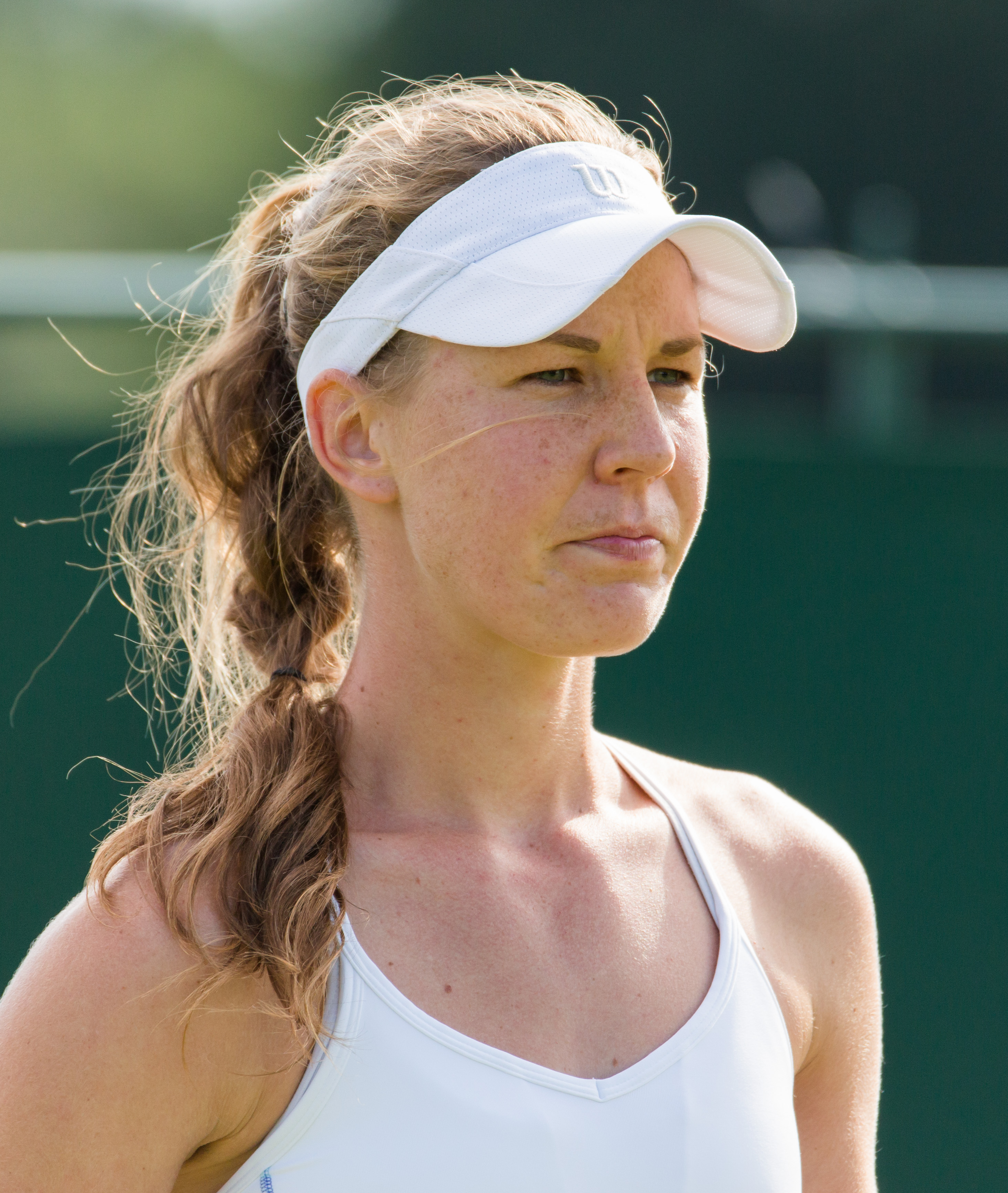 Olivia Rogowska competing in the first round of the 2015 Wimbledon Qualifying Tournament at the Bank of England Sports Grounds in Roehampton, England. The winners of three rounds of competition qualify for the main draw of Wimbledon the following week.